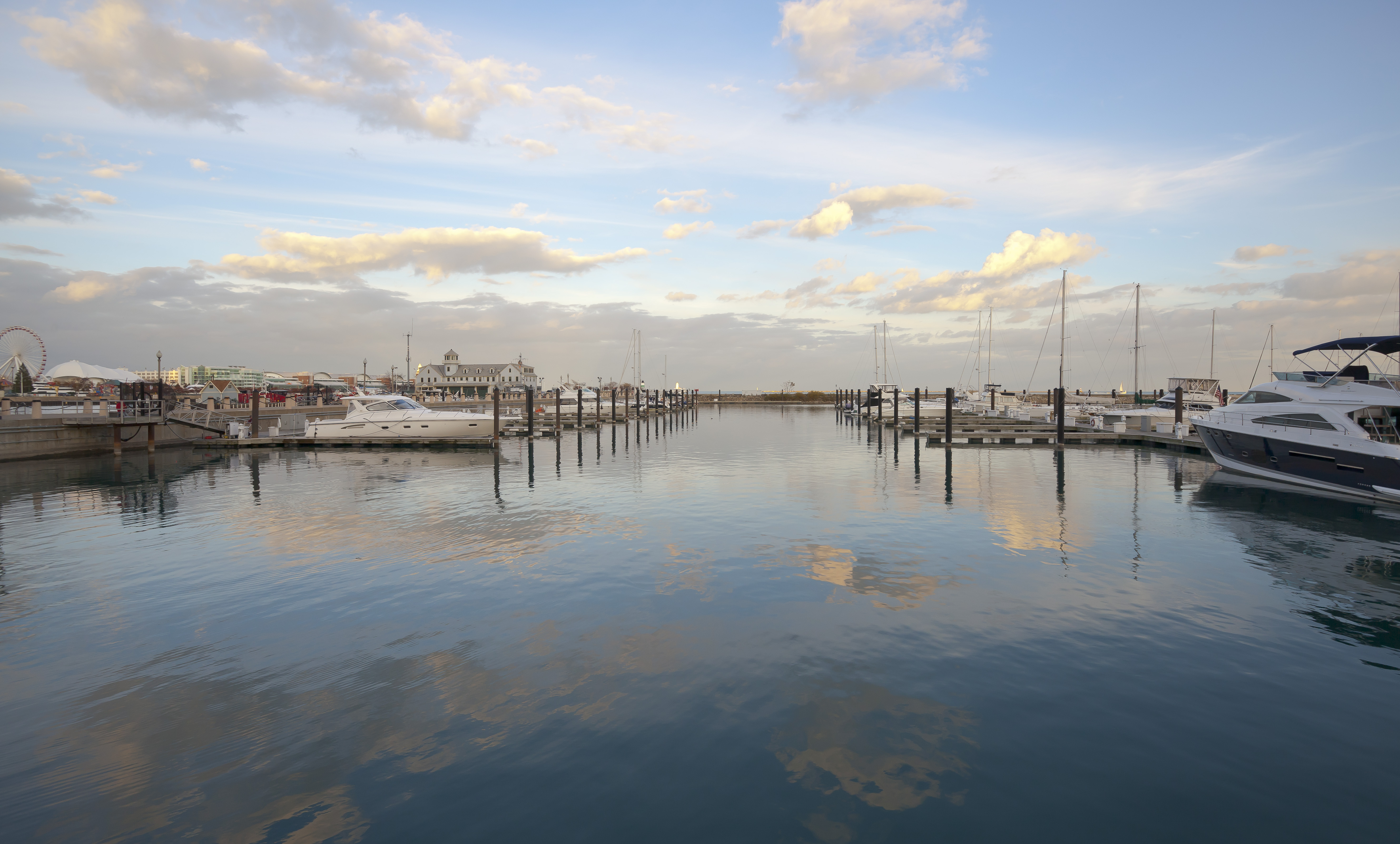 Monroe Harbor, Chicago, Illinois, USA